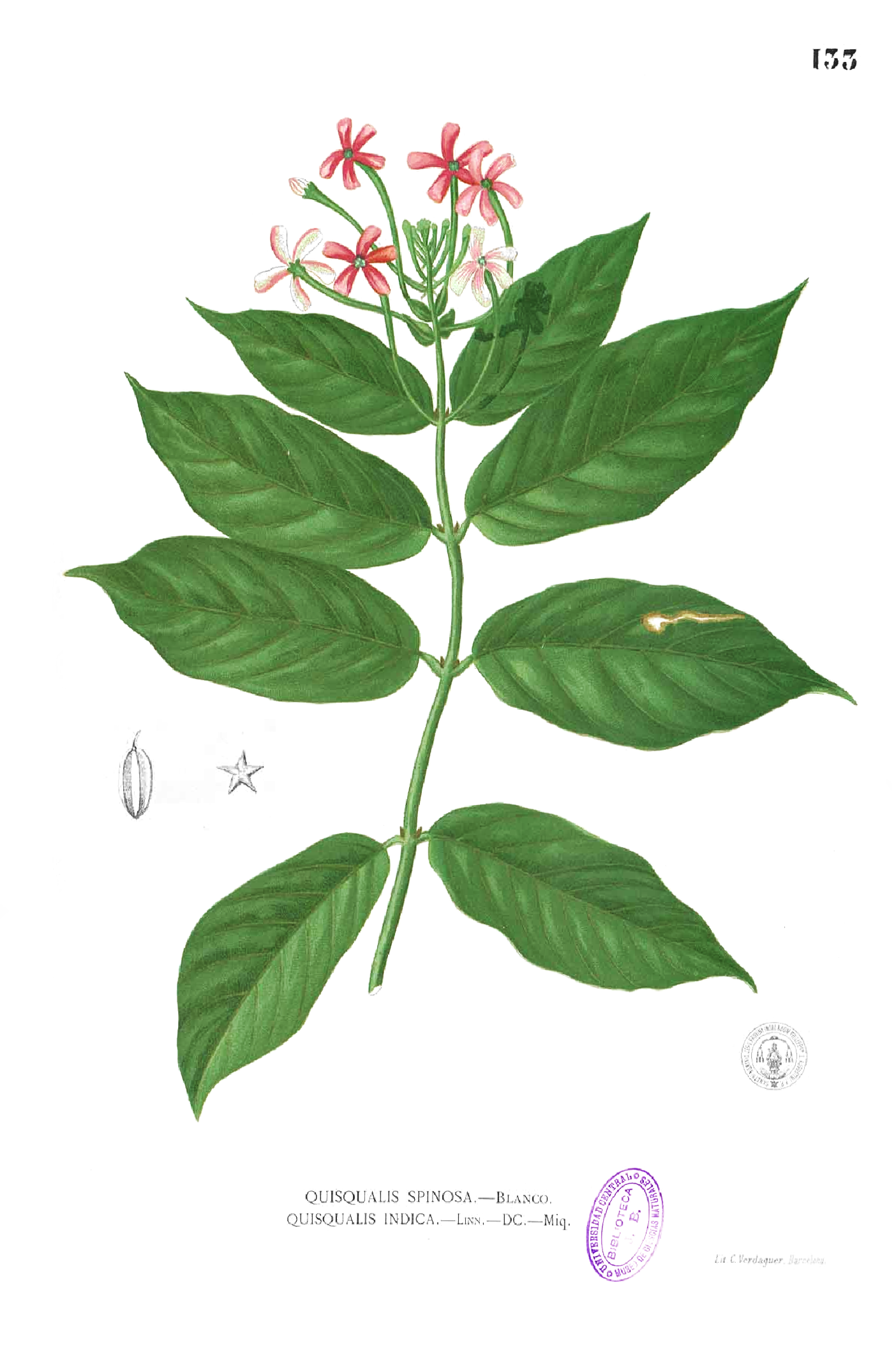 Plate from book Quisqualis malabarica